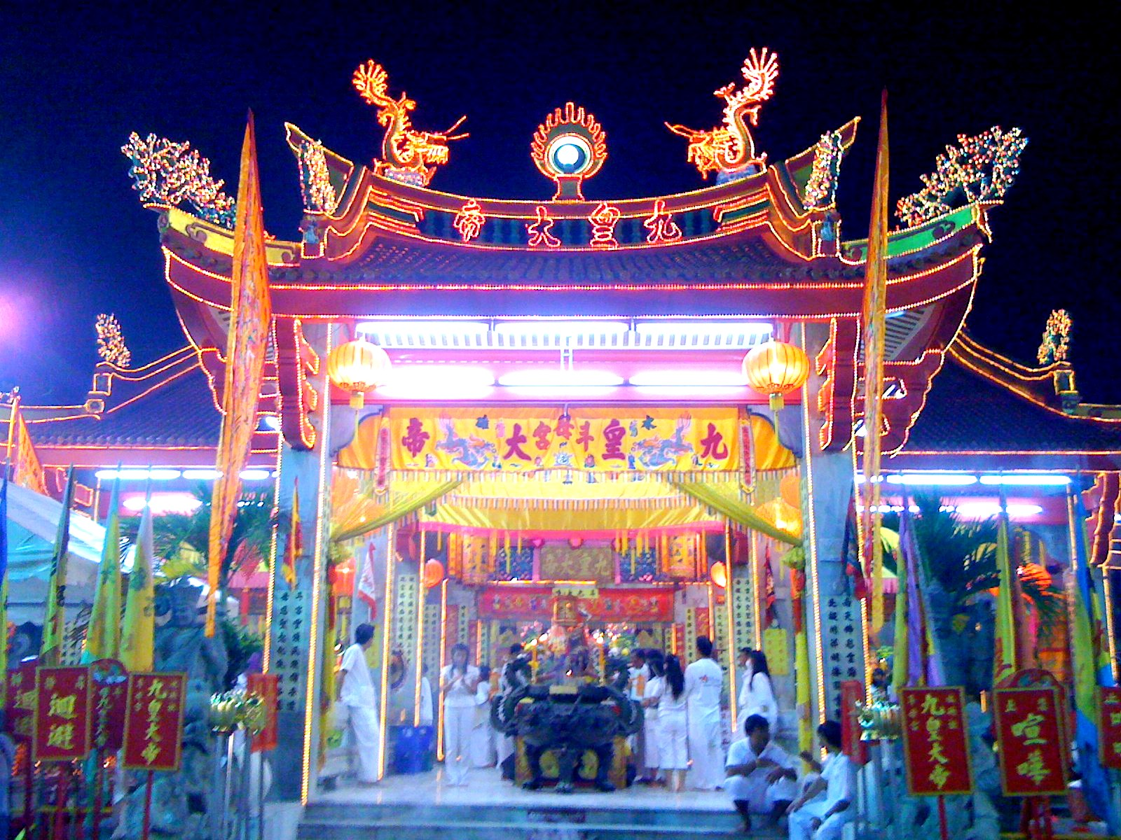 JuiTuiSheine on 2009